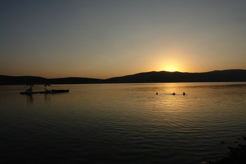 Bazaleti Lake